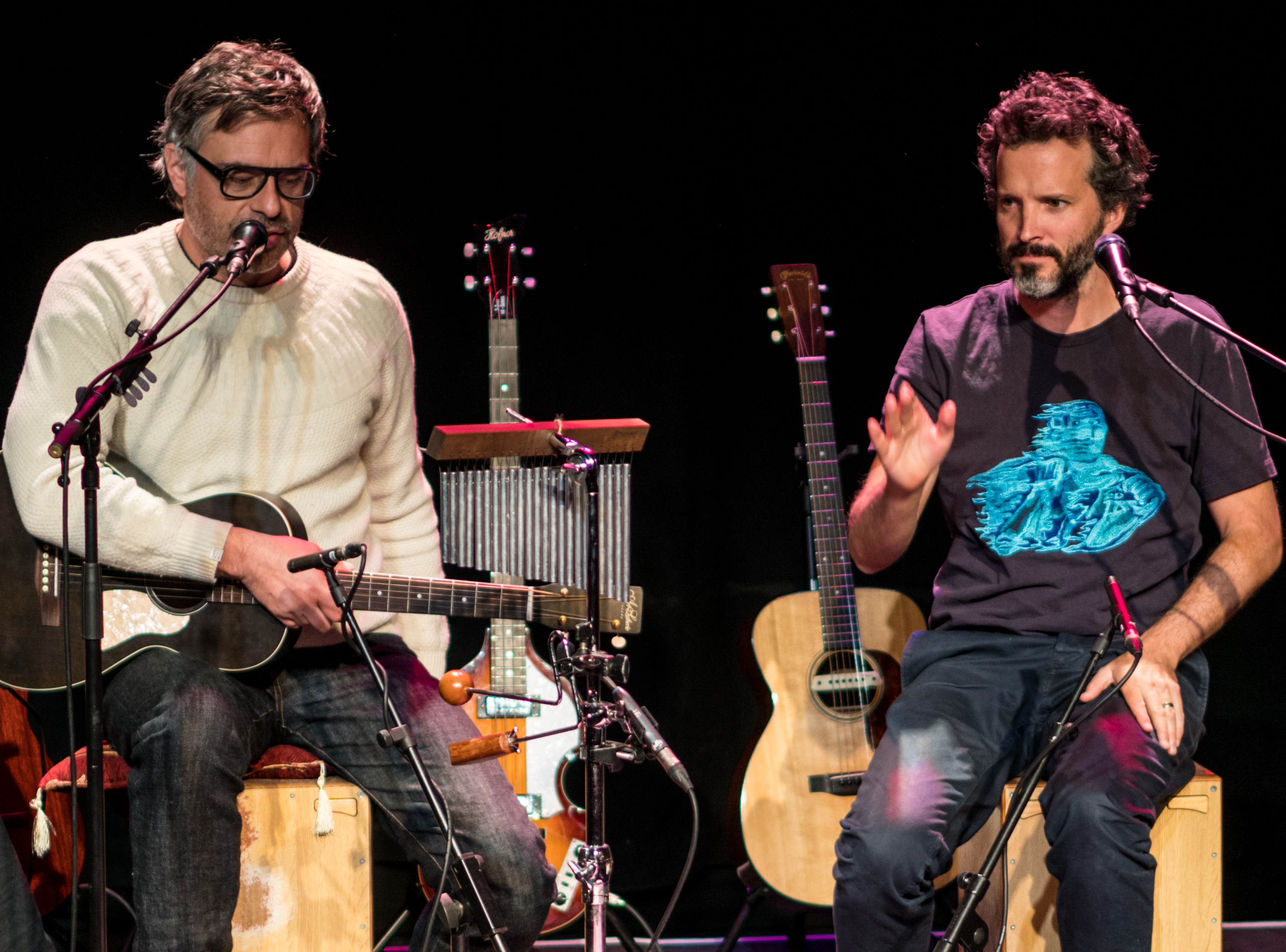 ConchordsSoho250218-7